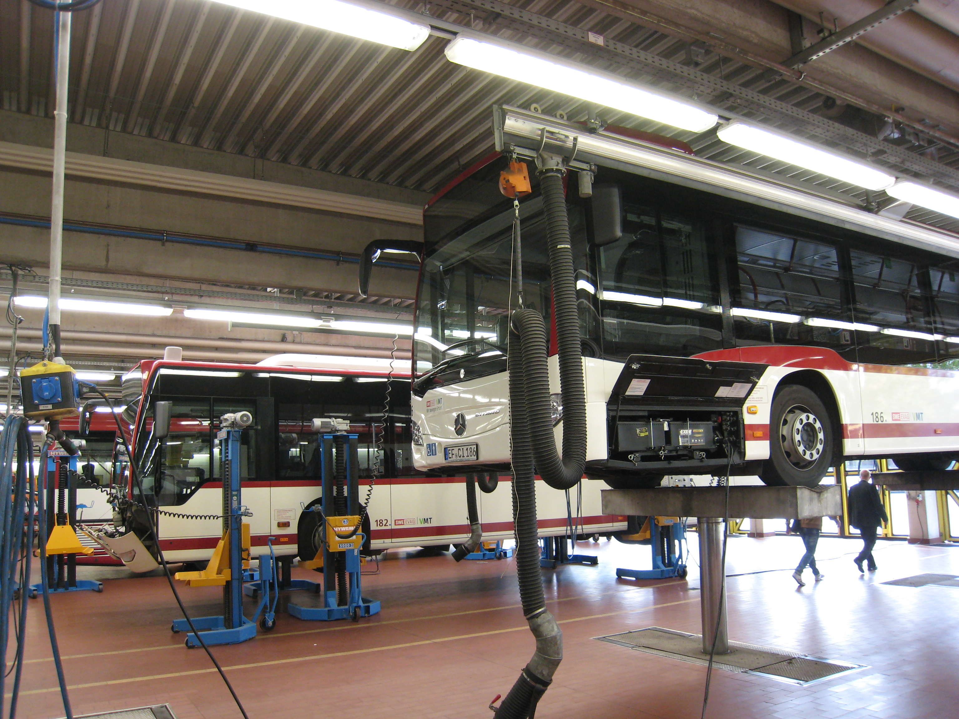 Betriebshof EVAG Urbicher Kreuz Erfurt